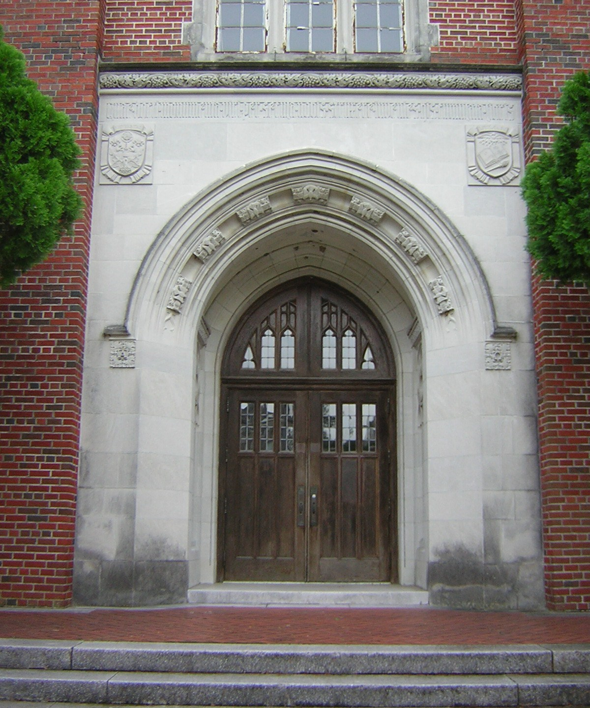 An example of neo-Gothic architecture on the campus of Loyola University New Orleans (entrance to the old library and law library)